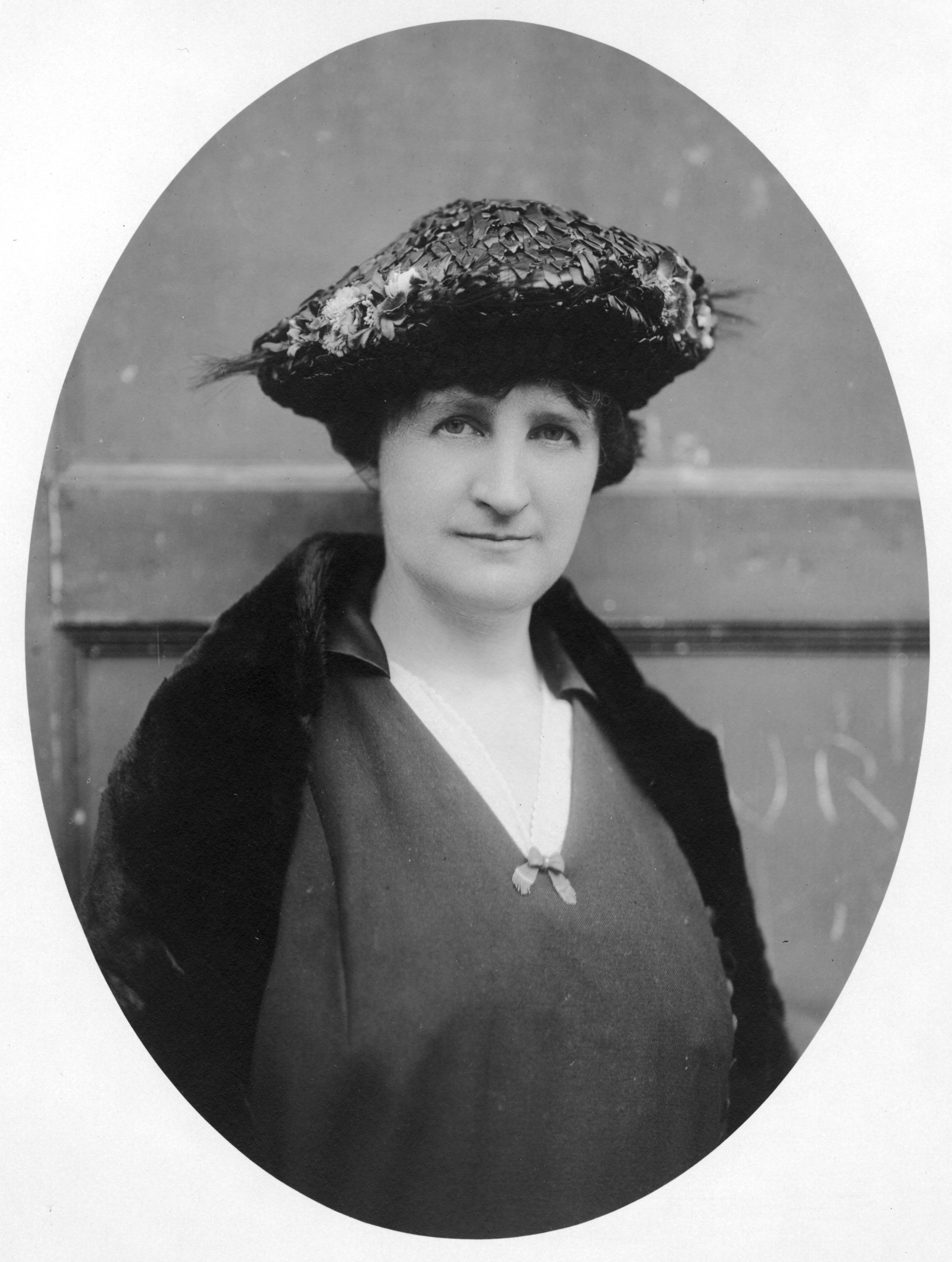 Collection: Human Ecology Historical Photographs Title: Oval portrait of Flora Rose in straw hat, dated by Beulah Blackmore at about 1916. Collection #23-2-749, item H-FR-03 Div. Rare & Manuscript Collections, Cornell University Library Persistent URI: There are no known U.S. copyright restrictions on this image. The digital file is owned by the Cornell University Library which is making it freely available with the request that, when possible, the Library be credited as its source.